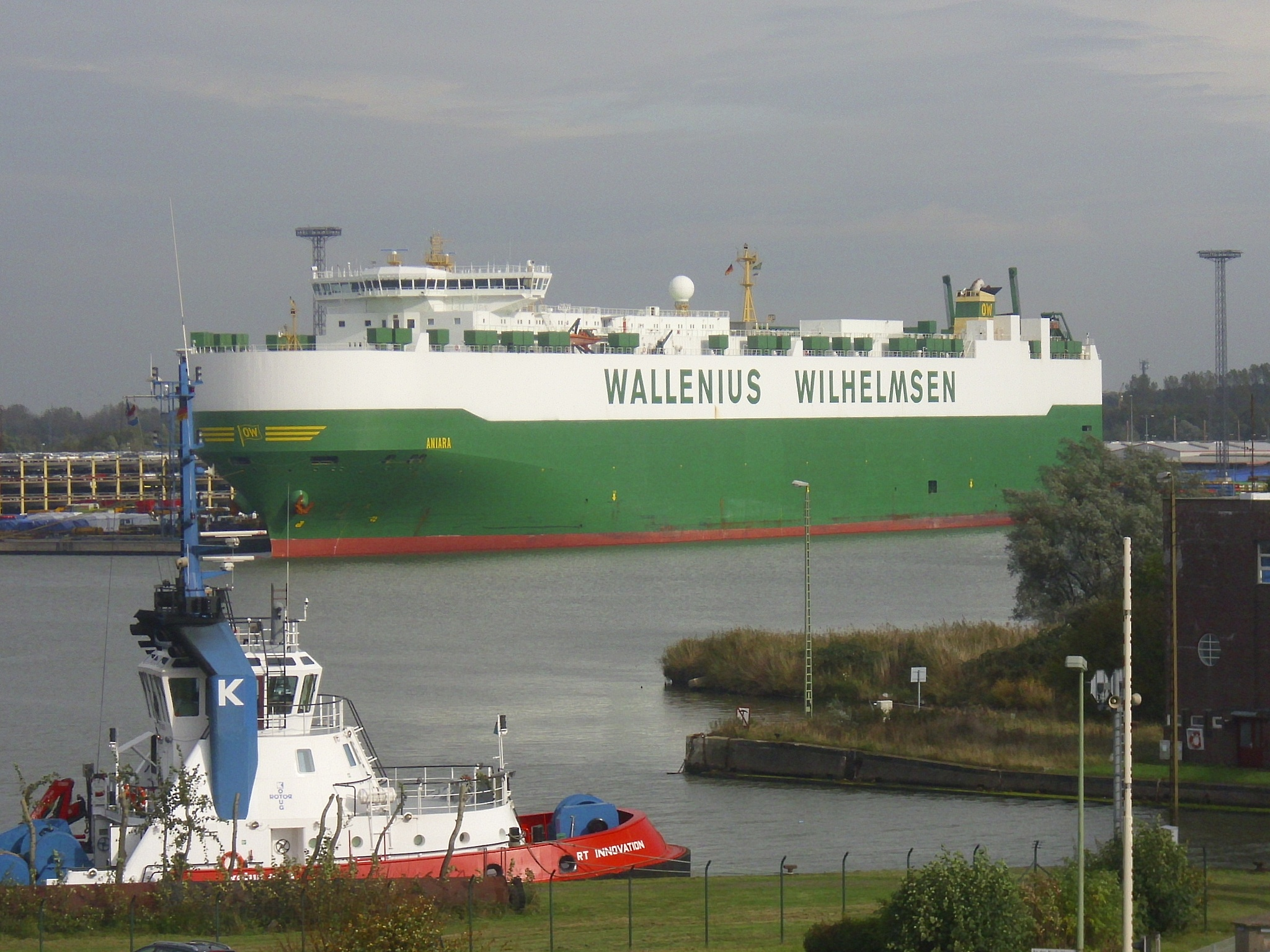 The car carrier Aniara in the port of Bremerhaven, Germany. Details of the ship: external link (pdf).